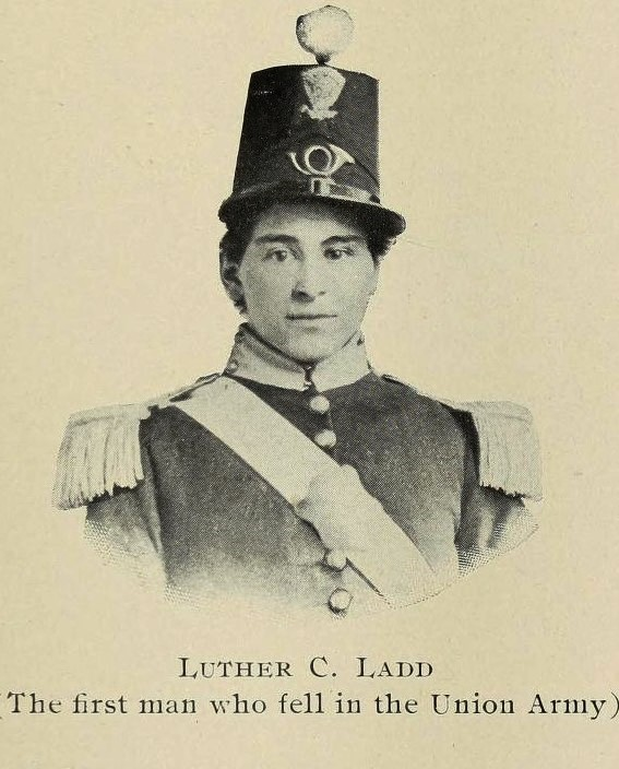 Private Luther C. Ladd of the 6th Regiment Massachusetts Volunteer Militia